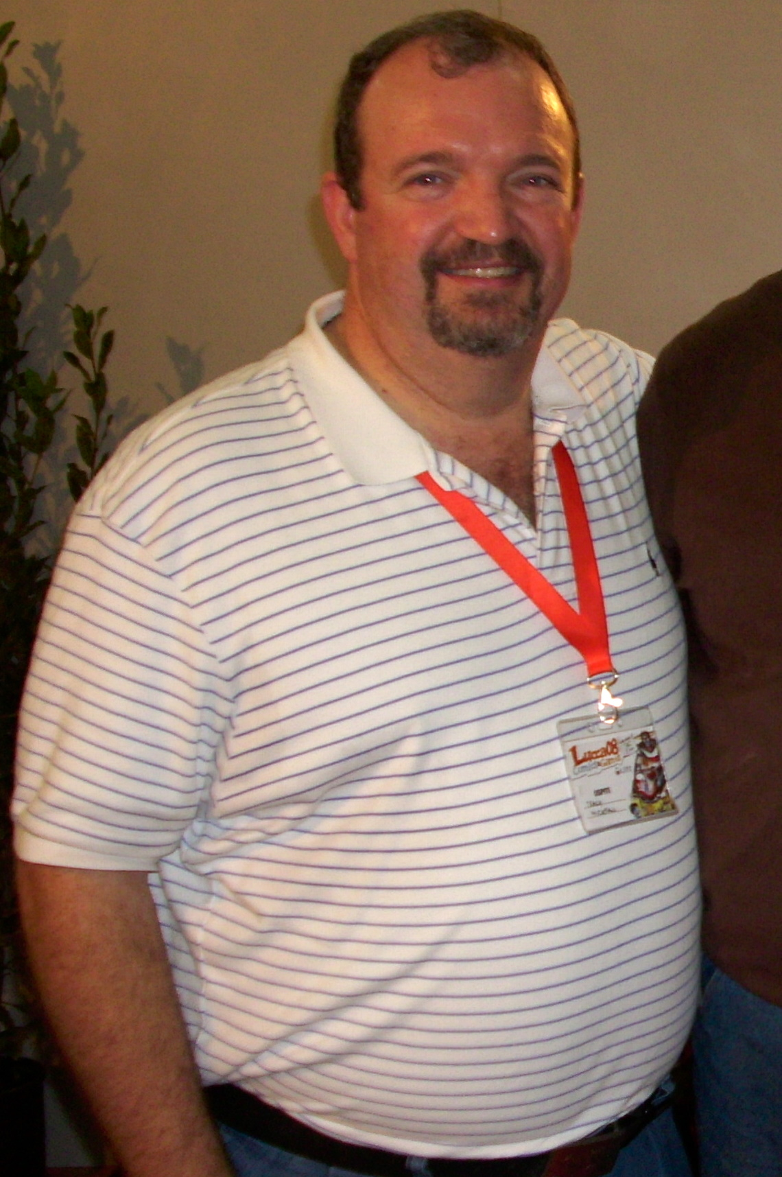 Tracy Hickman at Lucca Comics and Games 2008